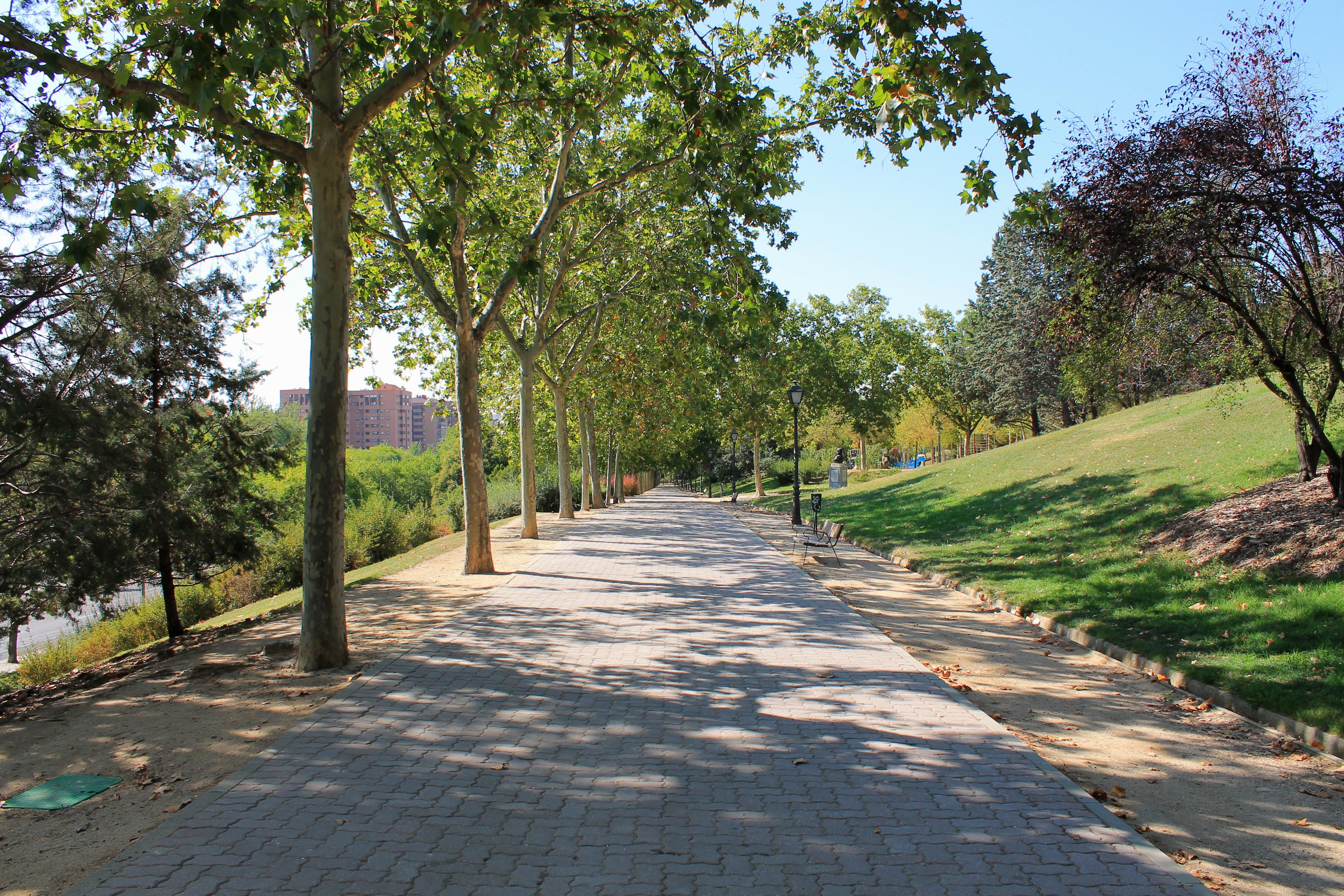 View from Parque Norte (a park) in Fuencarral-El Pardo district in Madrid (Spain).